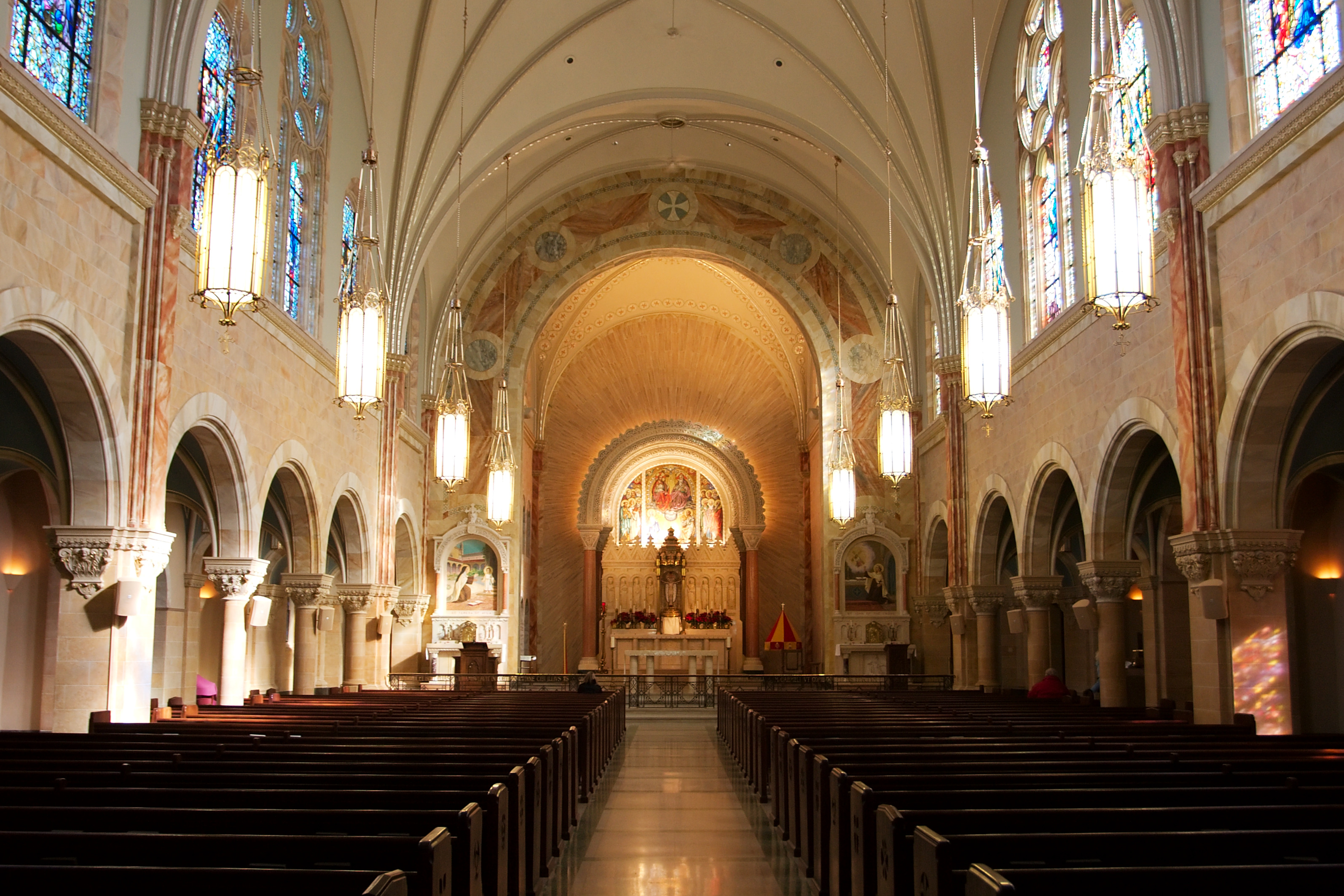 Holy Hill National Shrine of Mary, Help of Christians, Erin, Wisconsin